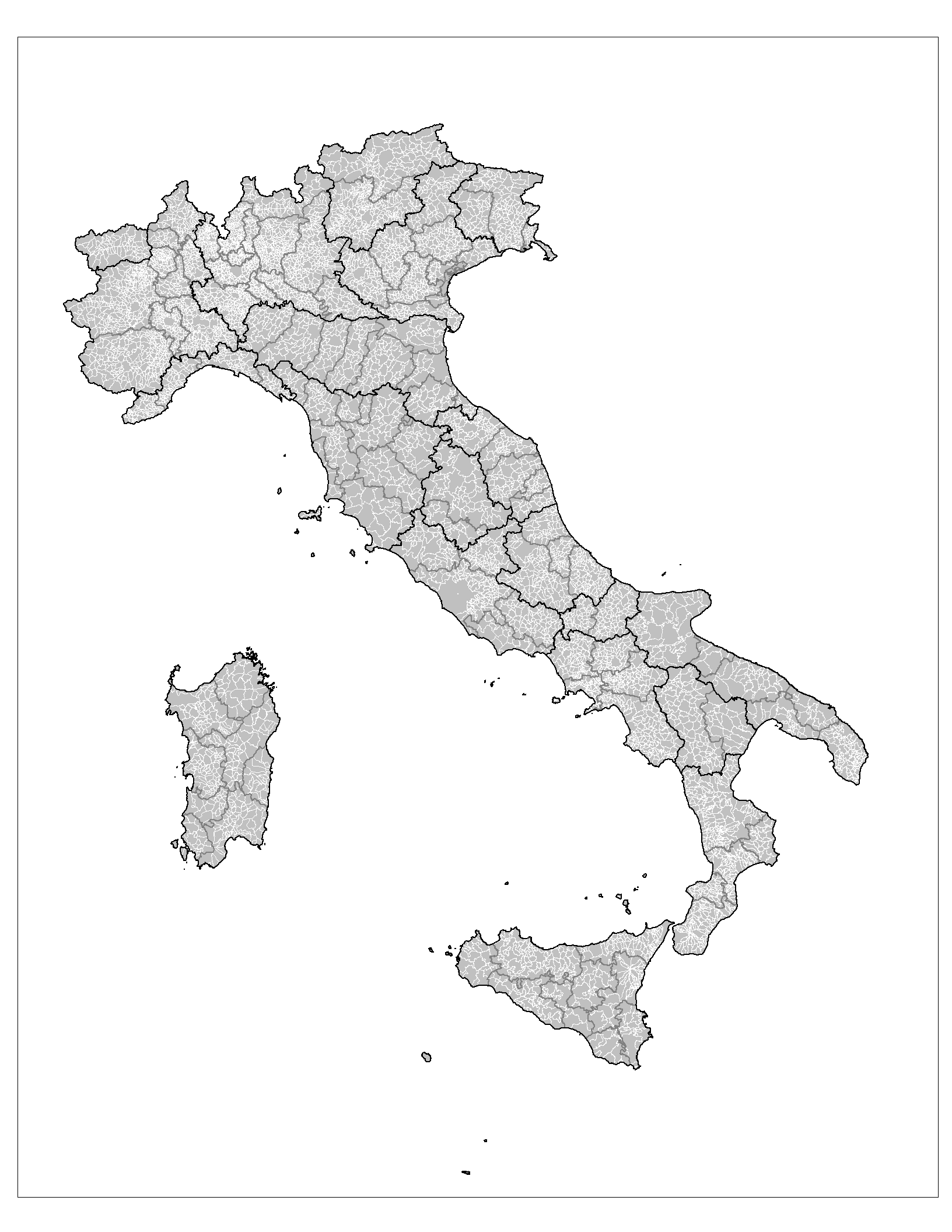 Administrative map of Italy showing the regions (black borders), the provinces (grey borders), and the communes (white borders).